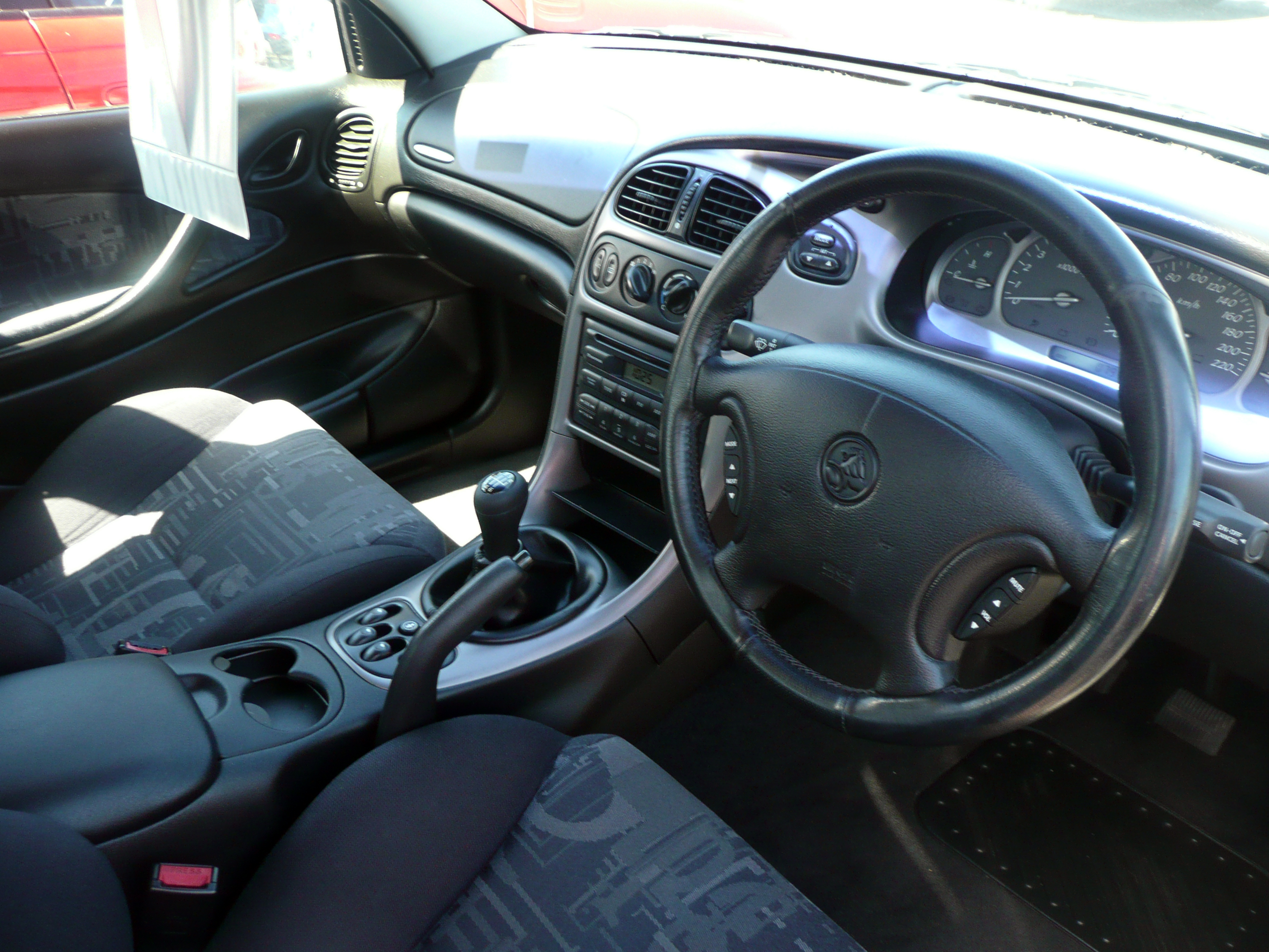 2001 Holden VX II Commodore SS sedan. Photographed at Central Coast Holden, Gosford, New South Wales, Australia.